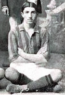 Hasan Kamil Sporel in 1911-1912